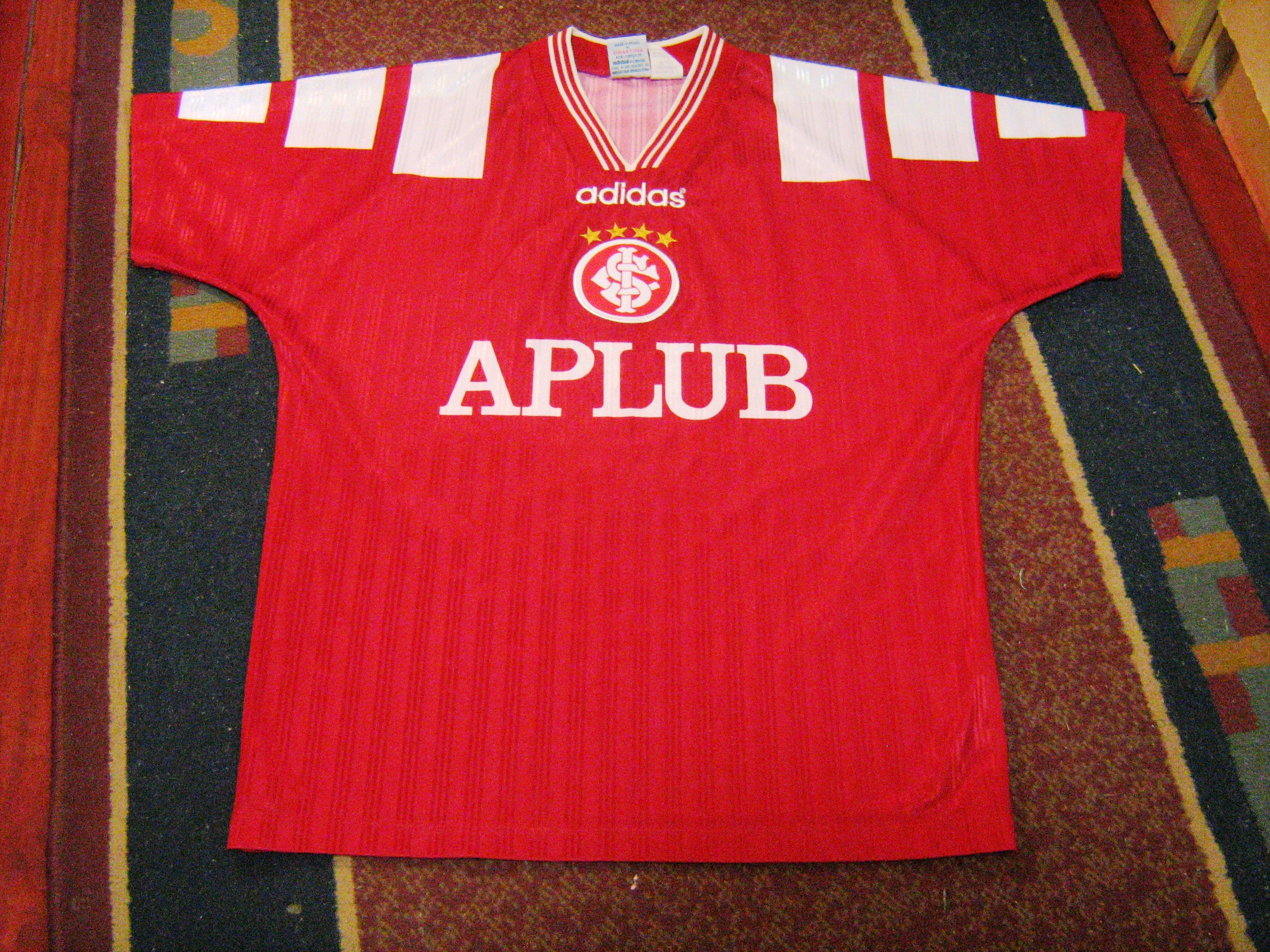 Sport Club Internacional 1997 T-Shirt. Distributed by Adidas, Sponsored by APLUB